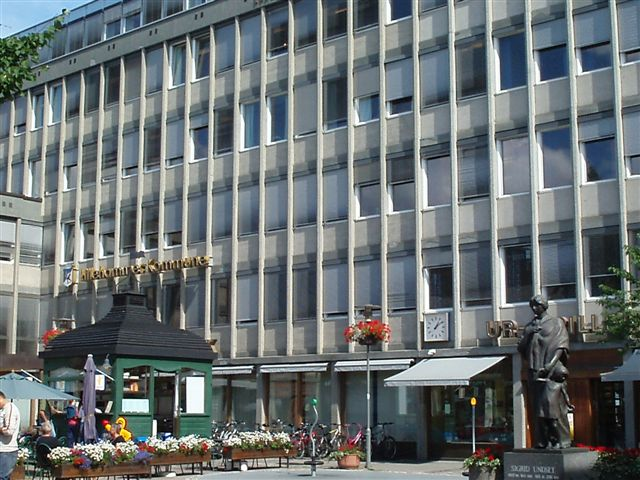 Lillehammer town hall, Norway. Statue of Sigrid Undset with daughter in front